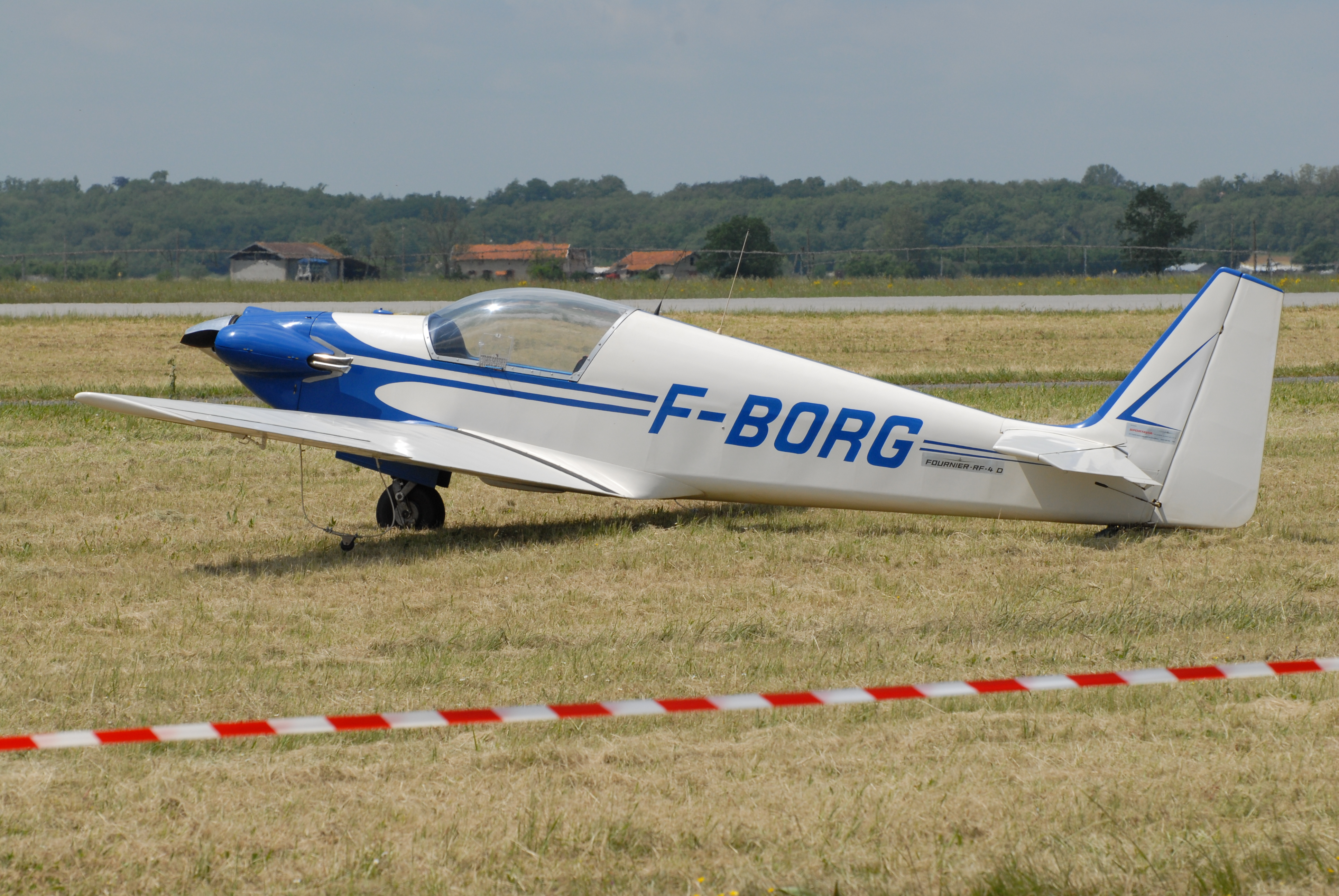 Sportavia Fournier RF-4 DManufacturerSportaviaModelSportavia Fournier RF-4 DTypetourismCharacteristicsmotor-gliderRegistration IDF-BORGOwnerJean-Claude LeboulangerBased inAlençon-Valframbert